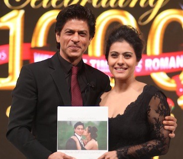 Shah Rukh Khan & Kajol unveil the special coffee table book DDLJ: Aditya Chopra Relives Dilwale Dulhania Le Jayenge'